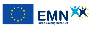 European Migration Network logo - Slovak version